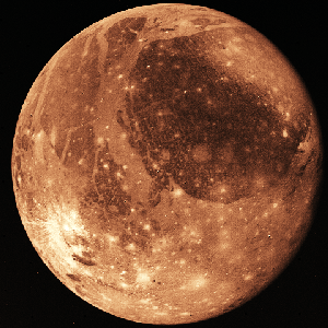 This shows an entire hemisphere of Ganymede. The prominent dark region, called Galileo Regio, is about 3,200 km in diameter. The bright spots are relative recent impact craters. Part of the Galileo Regio may be covered with a bright frost.